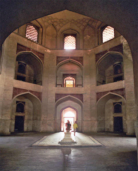 Humayun’s Tomb, New Delhi, India